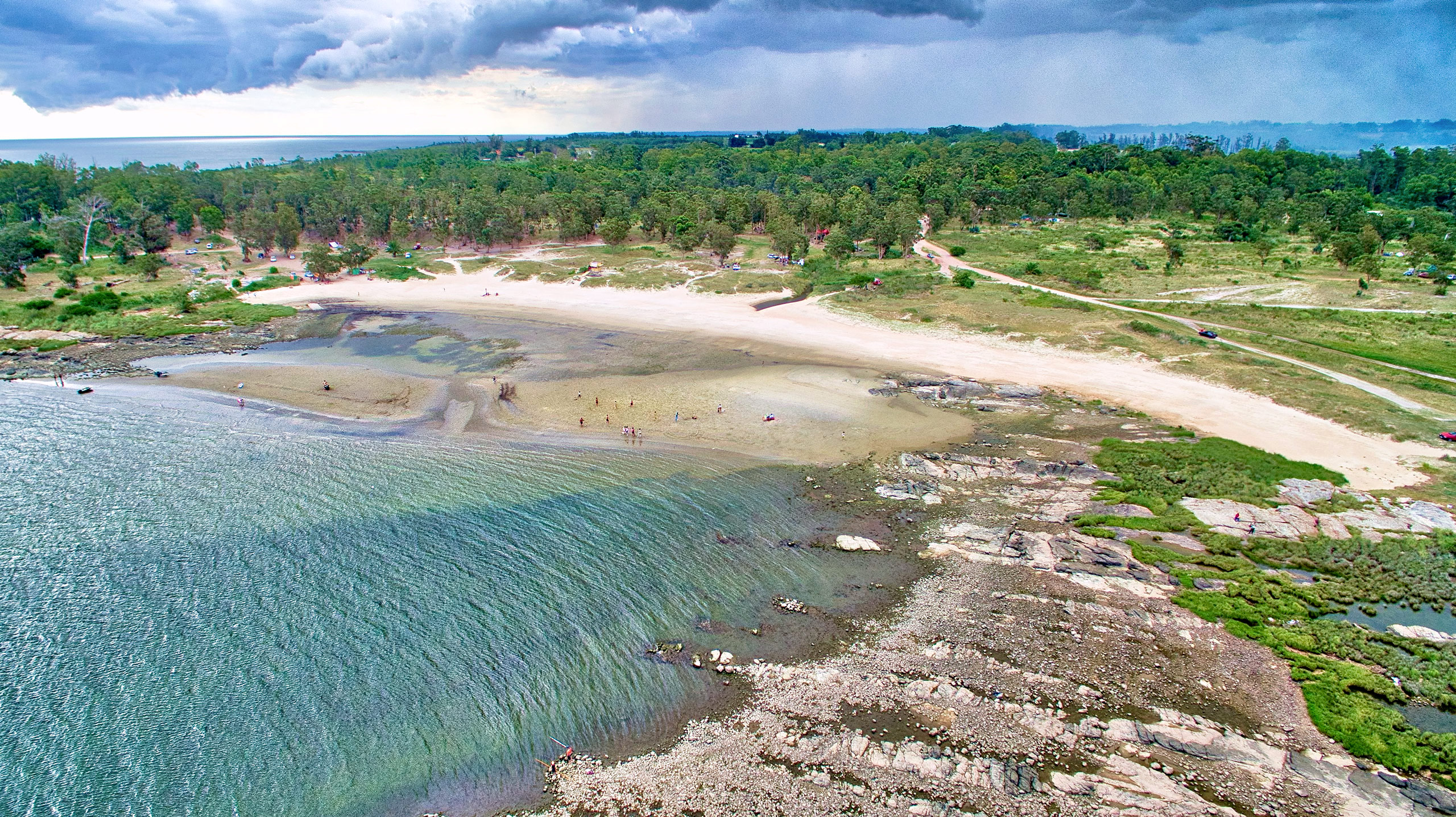 Camping beach